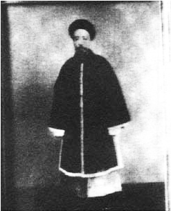 Ling Fupeng